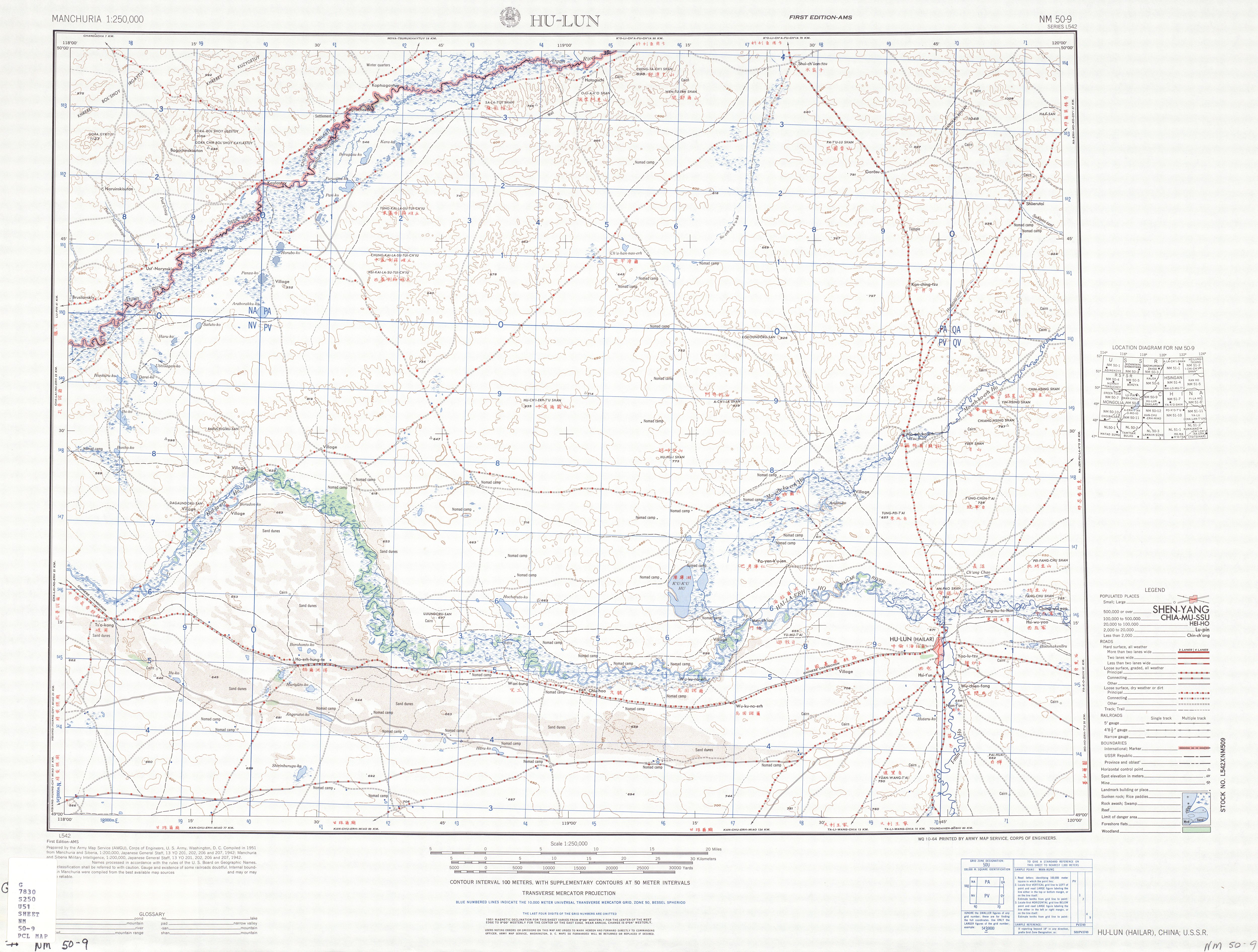 Map of Hailar area, Inner Mongolia